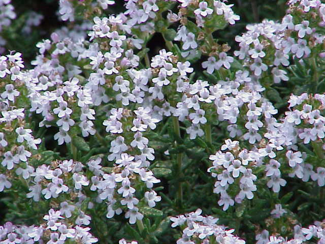 Species: Thymus vulgaris Family: Lamiaceae Image No. 1